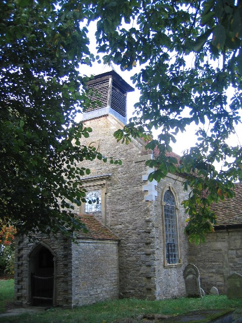 All Saints Church, Billesley. This secluded church, constructed for the inhabitants of the adjacent Billesley Manor, now seems rather forgotten by the world.